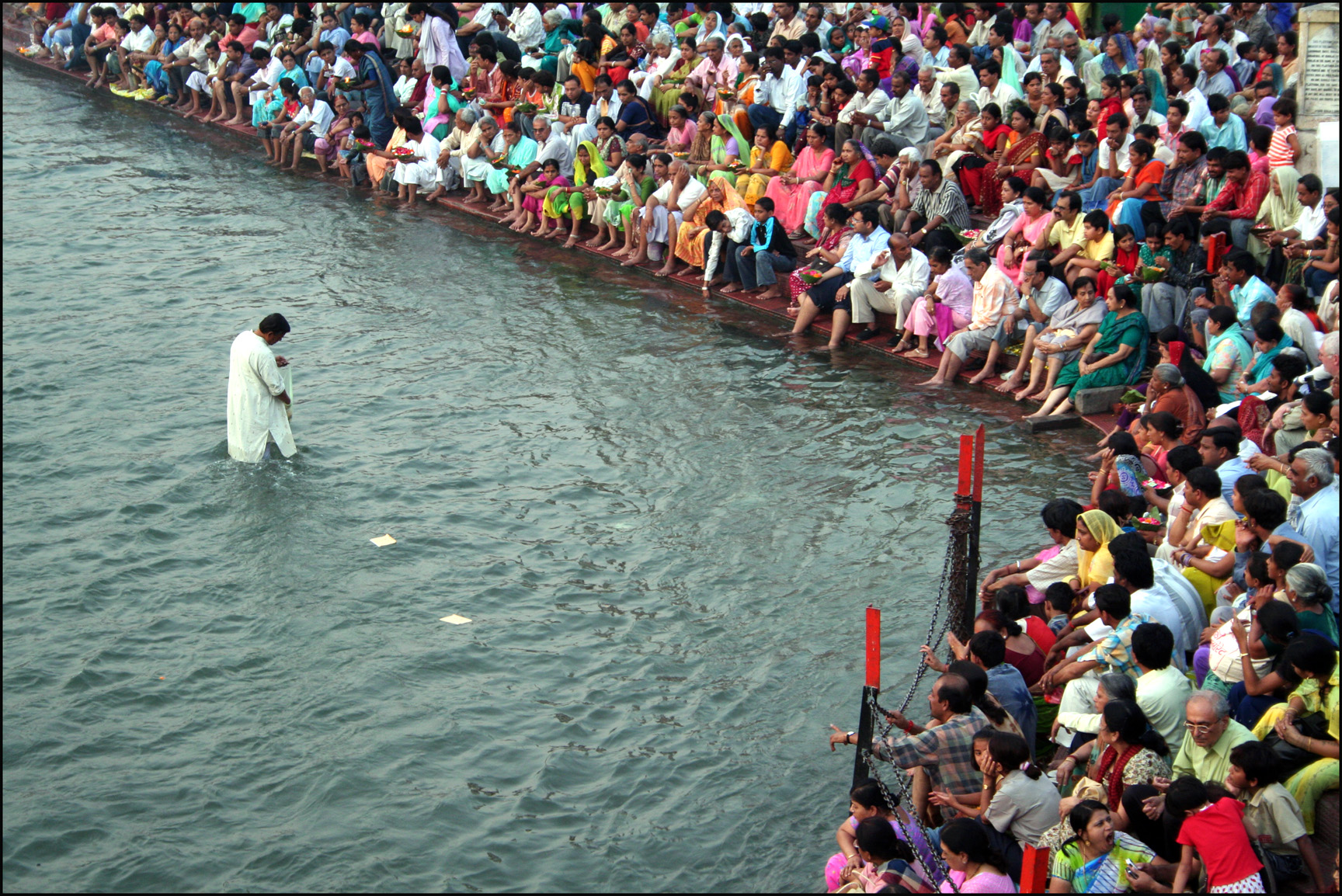 A public prayer in the River Ganges in the Indian holy city of Haridwar.